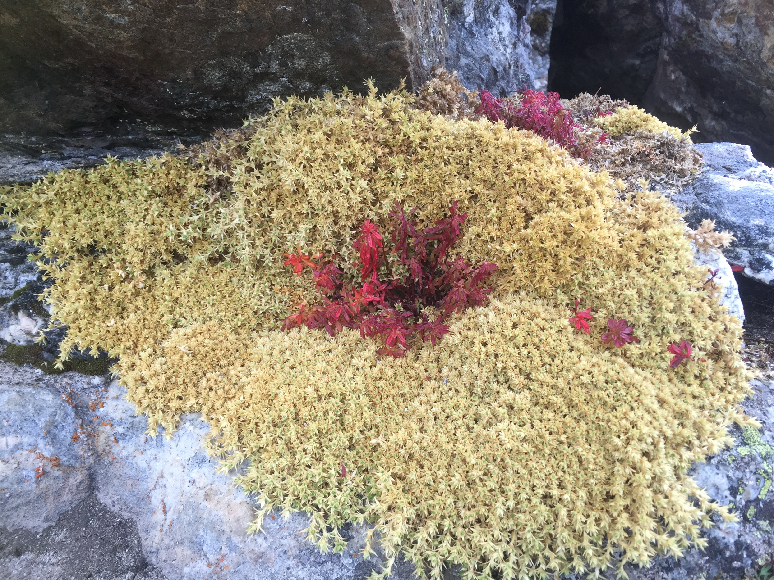 Flowers on the way to Cho La Pass - Sagarmatha National Park - approximately at an altitude of 5,000 meters.